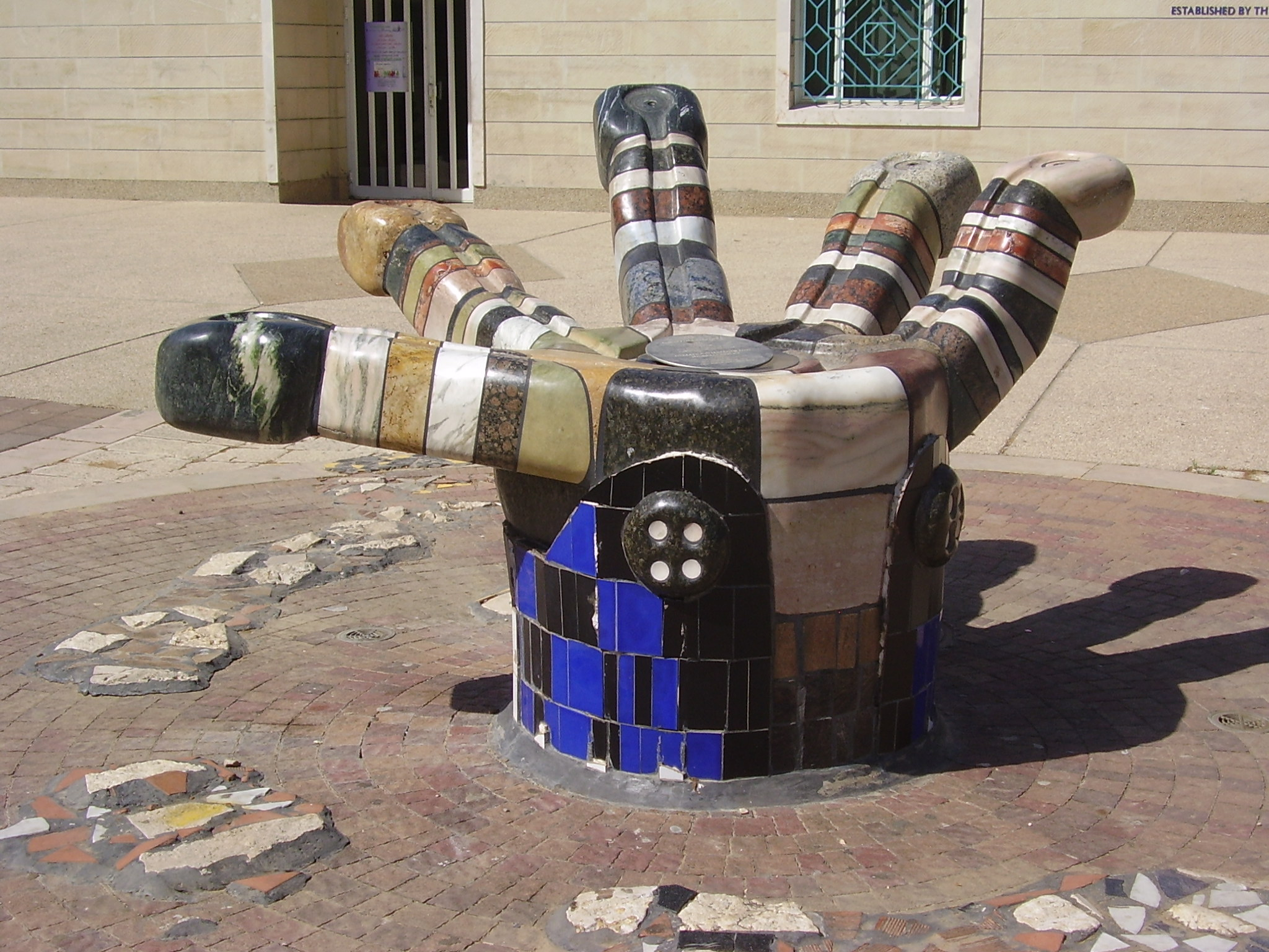 drinking fountain by friedensreich hundertwasser in Jaffa